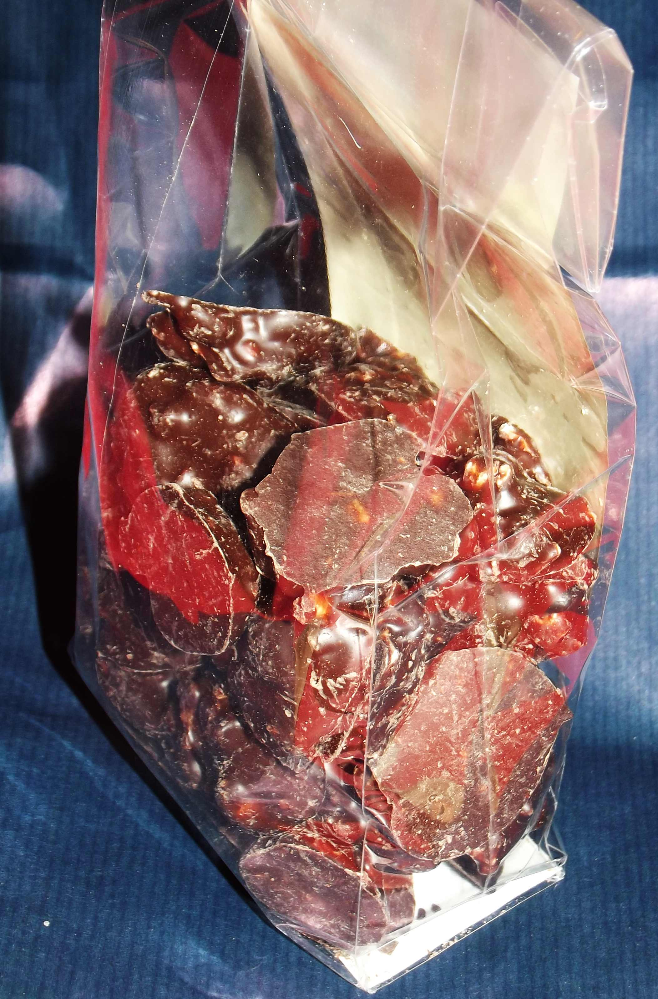 Packed baci di Cherasco